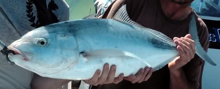 Bludger trevally caught at Dirk Hartog Island